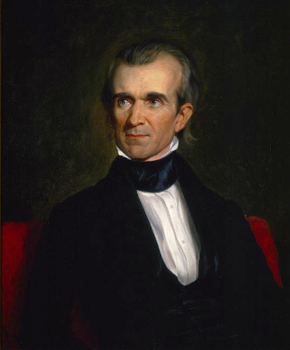 Object number: L/NPG.41.2006 Exhibition label: It is often said that James K. Polk was the first "dark horse" to claim a presidential nomination, and during his White House campaign of 1844, his opponents were fond of sneering, "Who is James Polk?" Once he was in office, however, the question quickly lost its sarcastic bite. A diligent worker who abhorred the thought of time unprofitably spent, Polk set four goals for his presidency-reducing tariffs, creating an independent treasury system, settling the Oregon boundary dispute with Great Britain, and acquiring California. None of the four objectives was easily reached, and gaining California meant going to war with Mexico. By his administration's close, however, all had been accomplished. Unfortunately, Polk's success came at great personal cost. A spent man, he died within four months of retiring to private life.